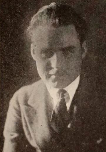 American film director Emmett J. Flynn (1892 – 1937), on page 46 of the July 19, 1919 Exhibitors Herald.